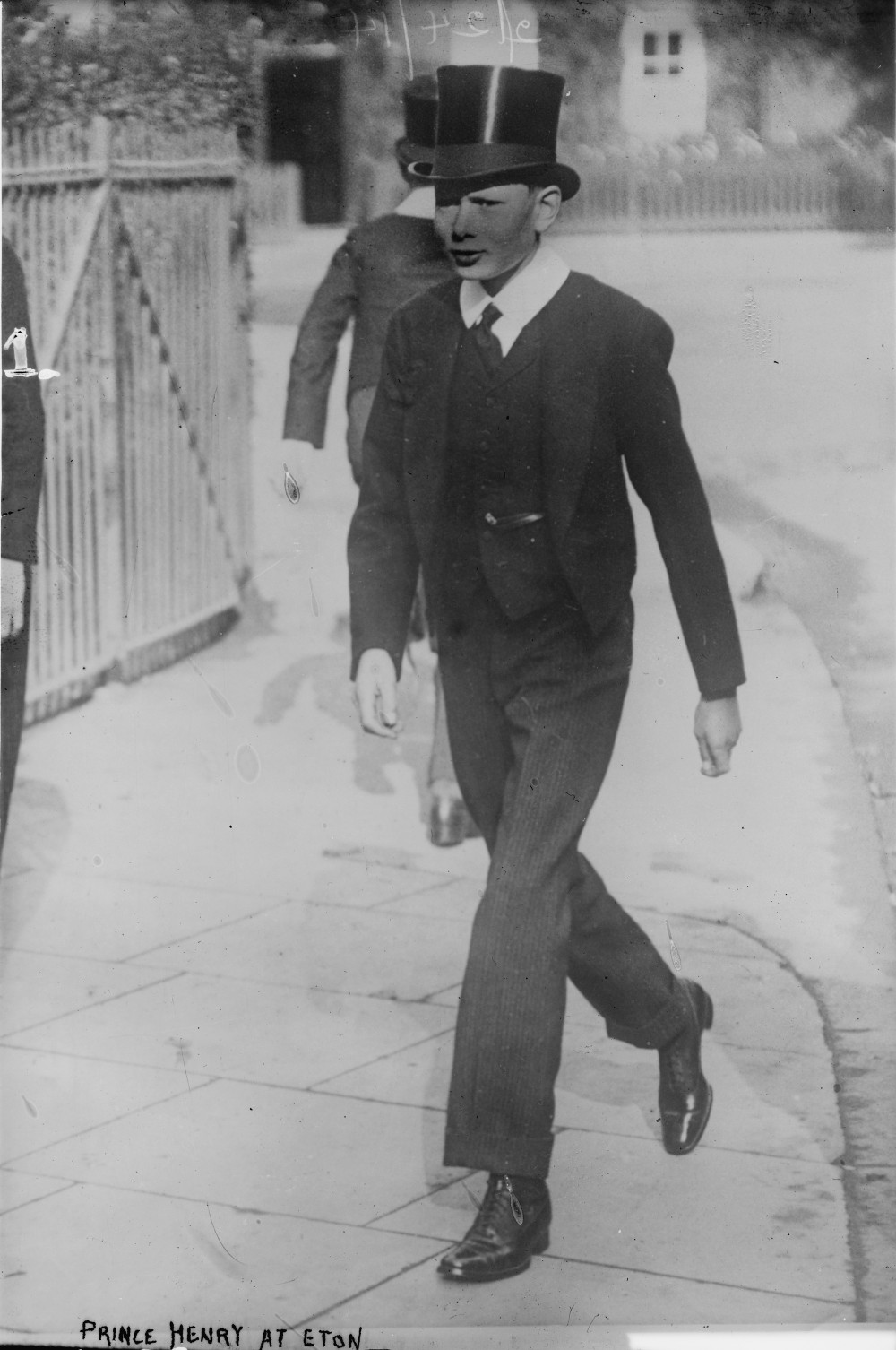 Prince Henry, Duke of Gloucester at Eton. 1 negative : glass ; 5 x 7 in. or smaller.